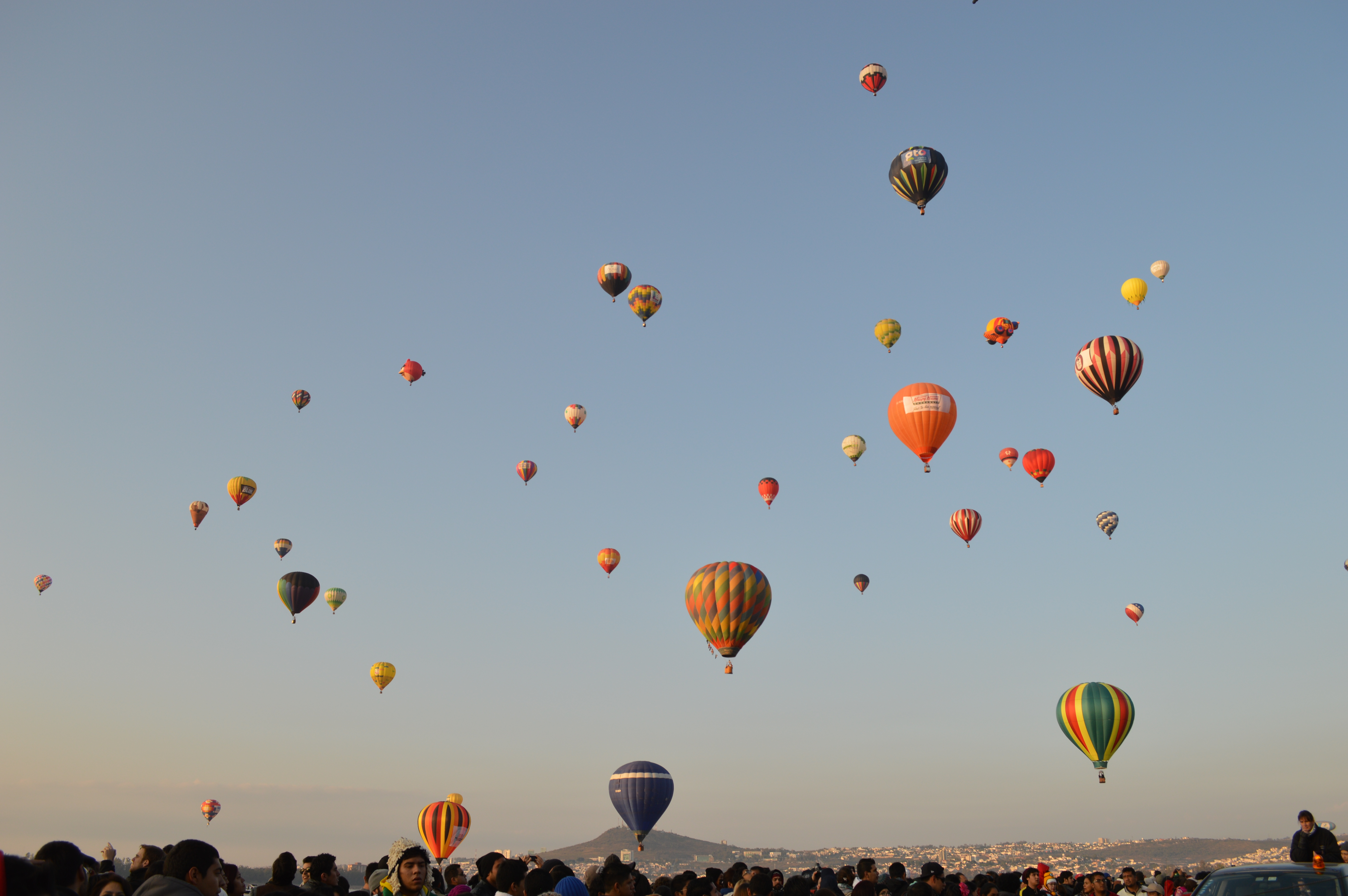 Mexico's "2014 Hot Air Balloon International Festival" from Leon, Guanajuato